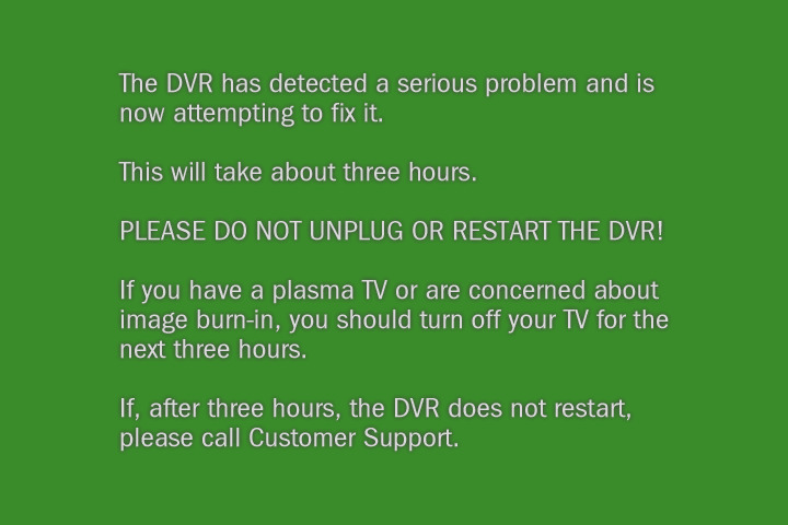 Error screen for TiVO devices.